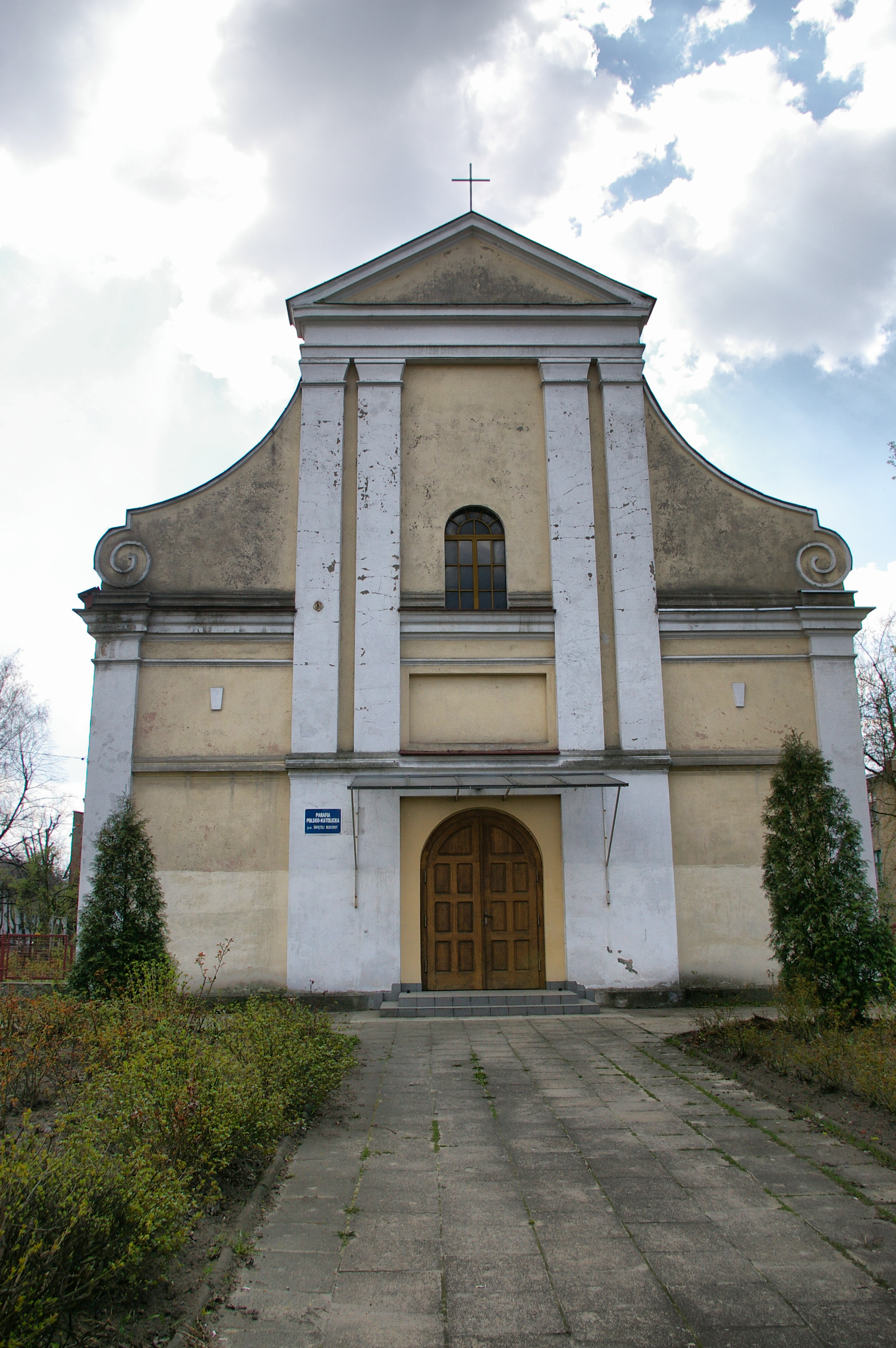 St. Family Church, Polish Catholic Church in Lodz